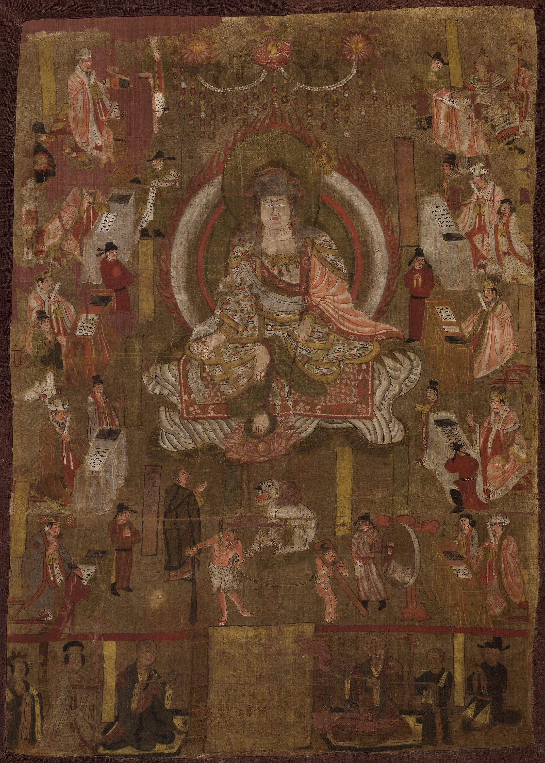 Kshitigarbha with the Ten Kings of Hell. From Dunhuang. Late 9th - early 10th century AD, British Museum